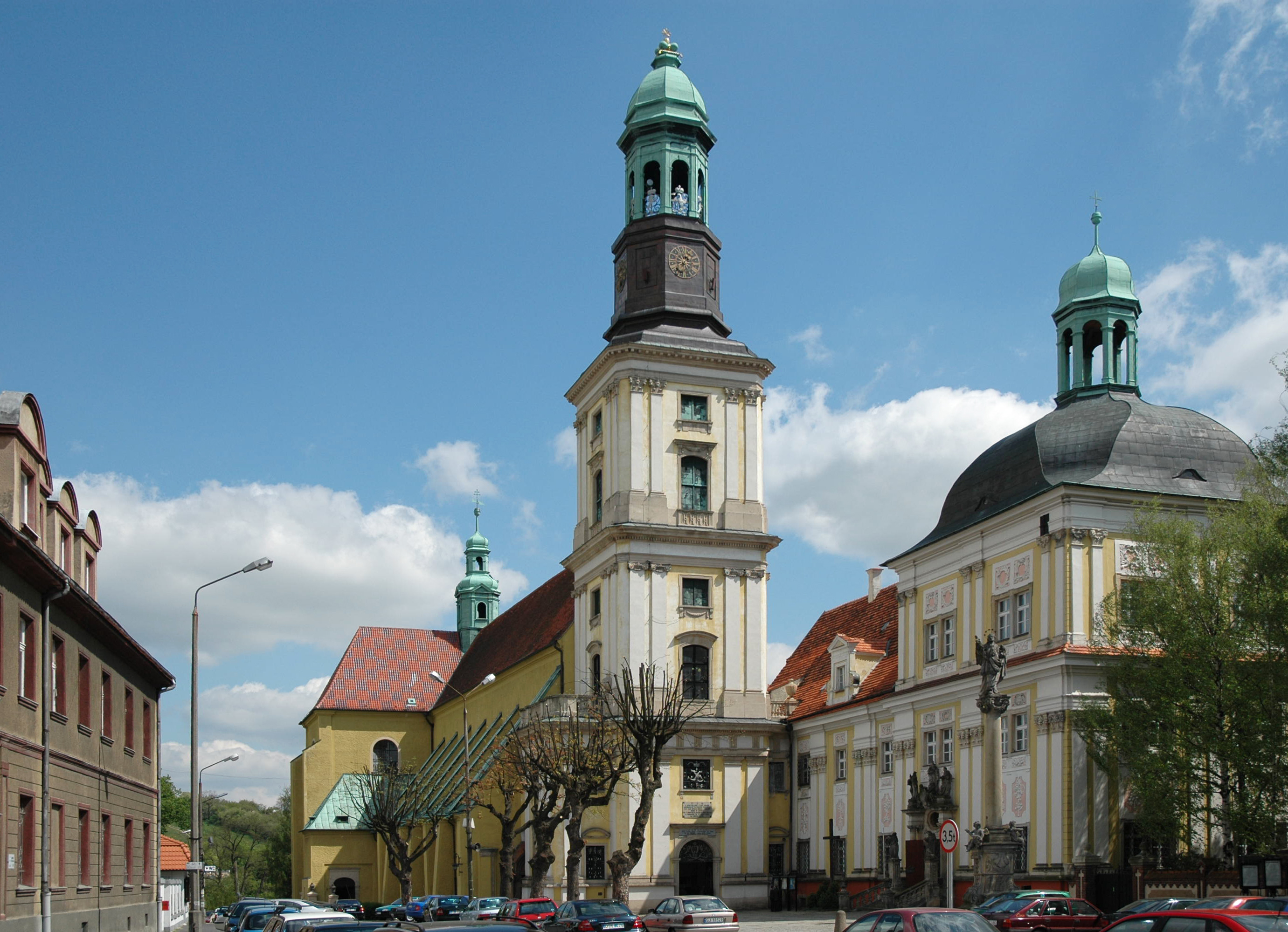 Poland, Trzebnica - Sanctuary of Hedwig